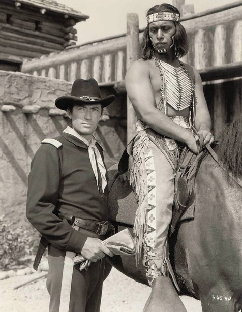 Gregory Peck and Michael Ansara in the film Only the Valiant - publicity still (cropped - original image : see source)